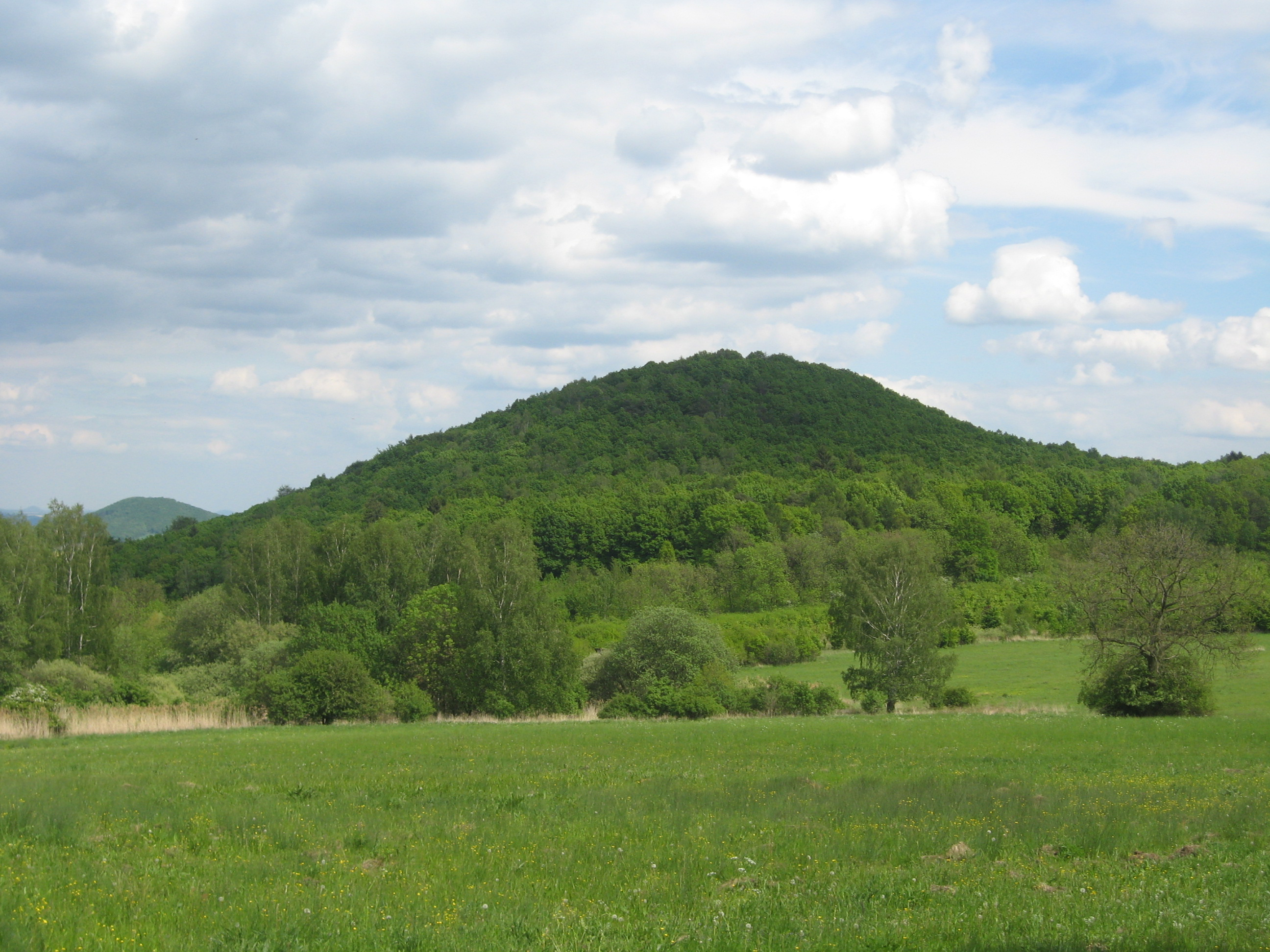 Líšeň hill in České středohoří